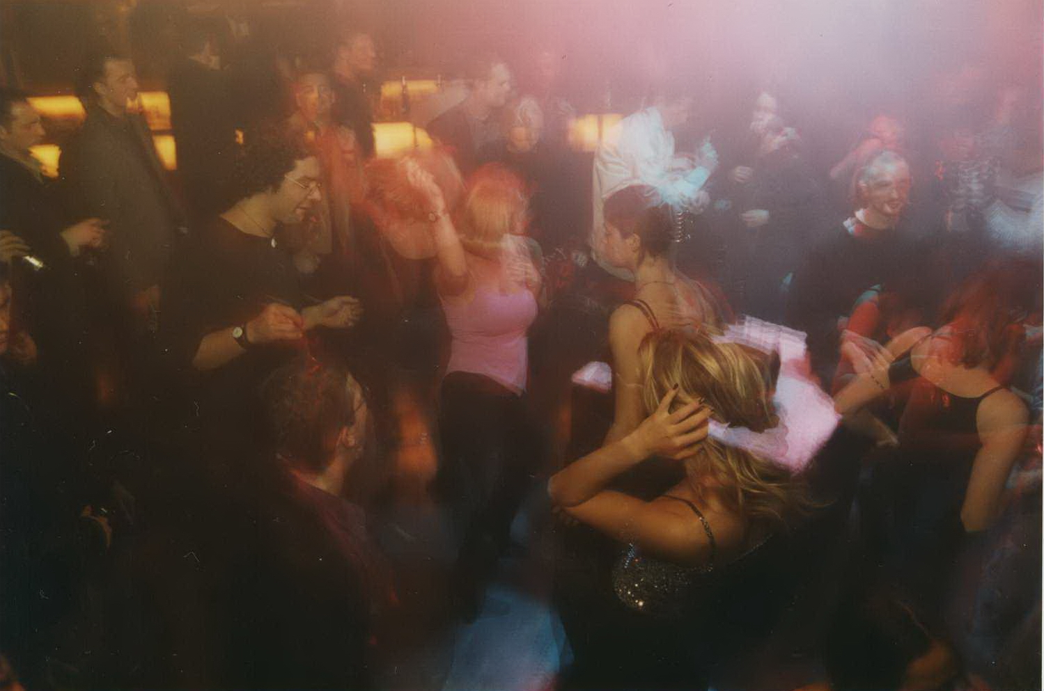 Monte 1999